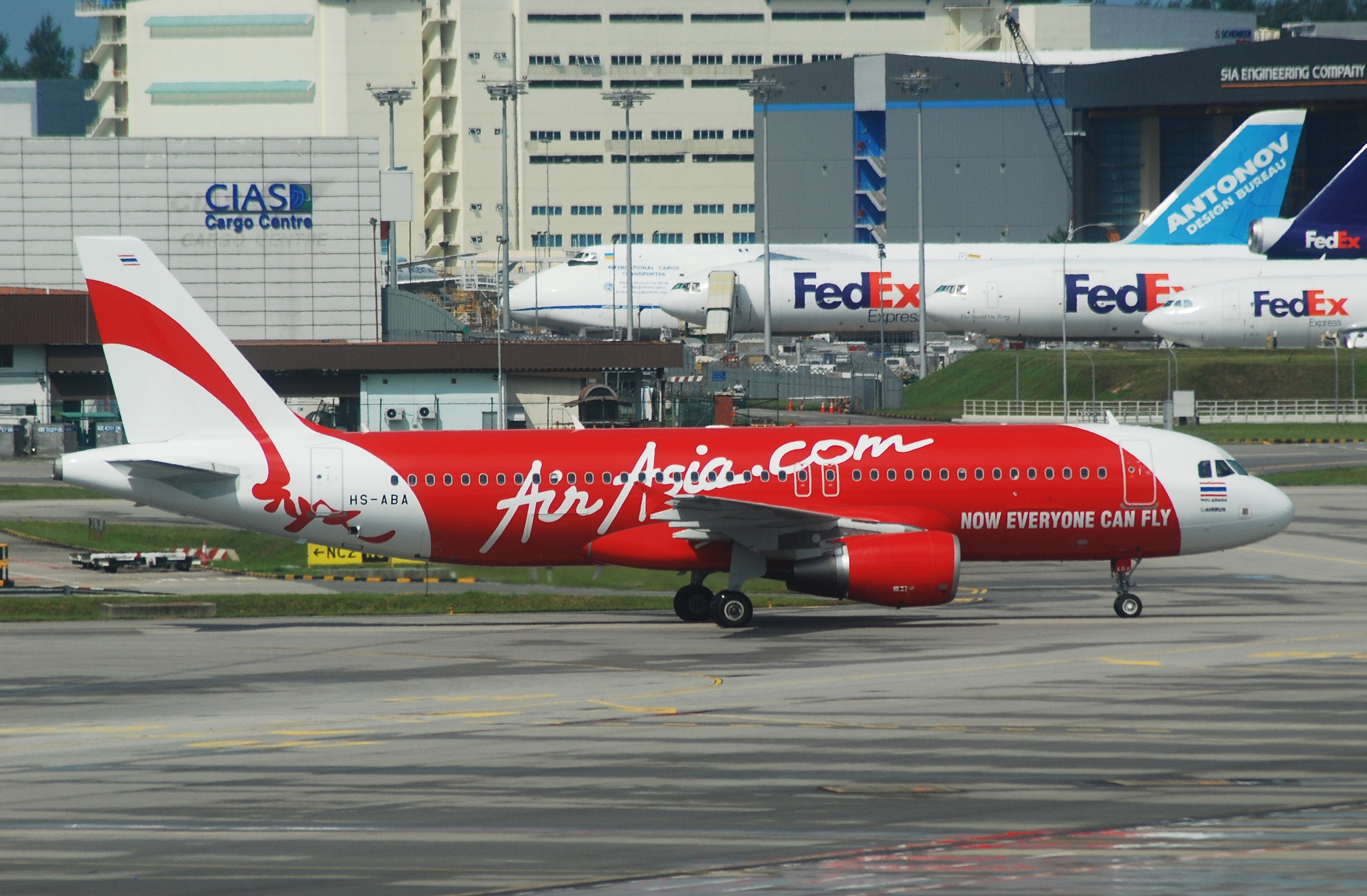 Thai AirAsia Airbus A320-200 (HS-ABA) in previous livery at Singapore Changi Airport. Taken with a Nikon D80 and AF 70-300mm f/4-5.6G lens.